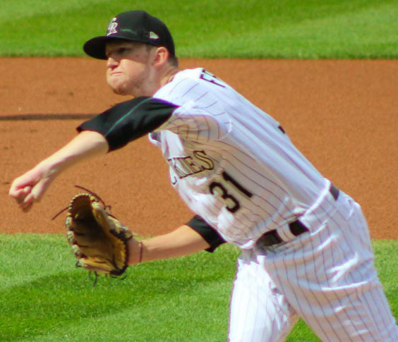 Kyle Freeland of the Colorado Rockies delivers a pitch at Coors Field in October 2017.